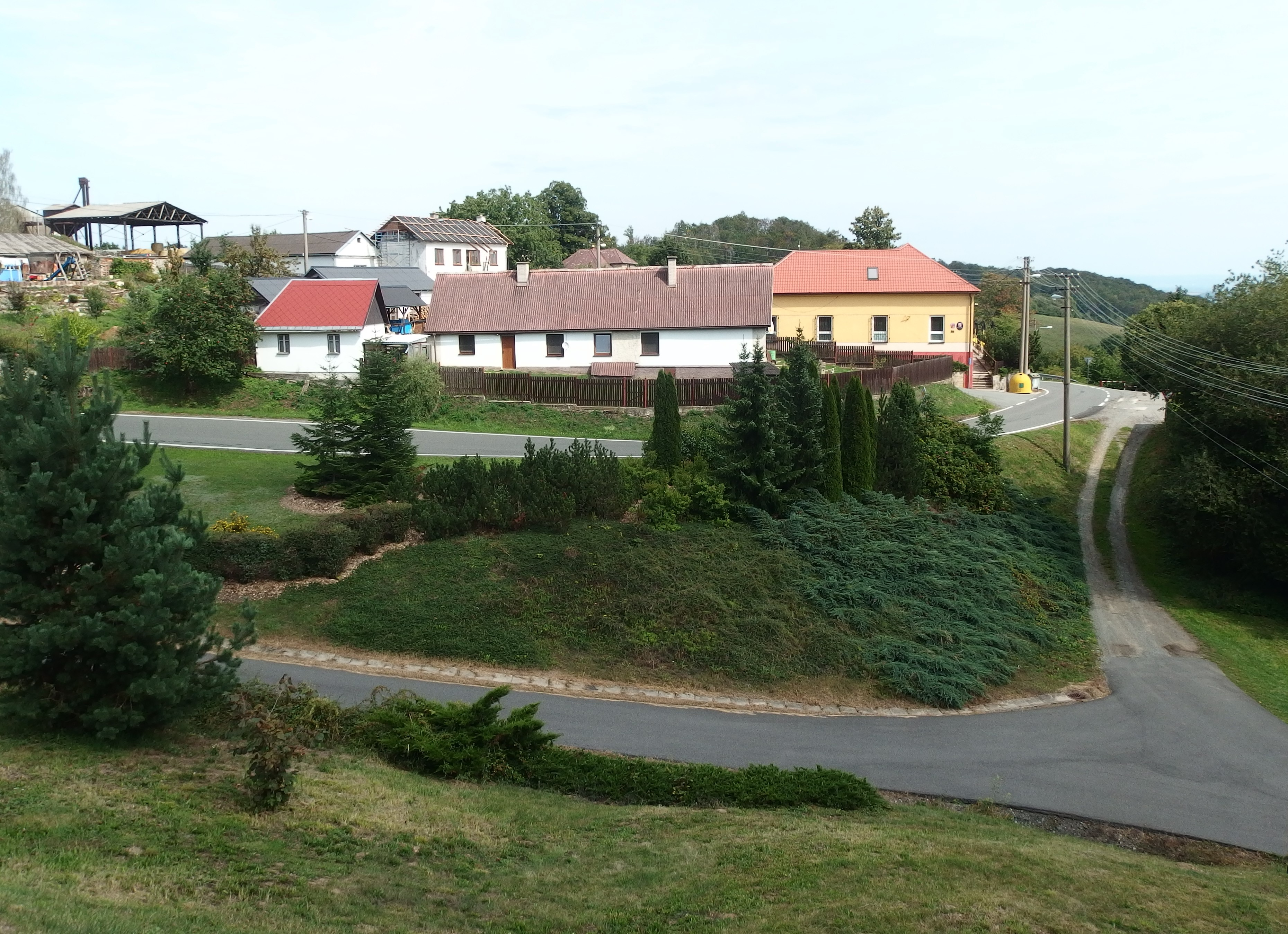 Krchleby, Šumperk District, Czechia.